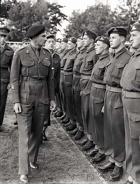 Lieutenant-General Guy Simonds inspecting II Canadian Corps in Meppen, Germany.